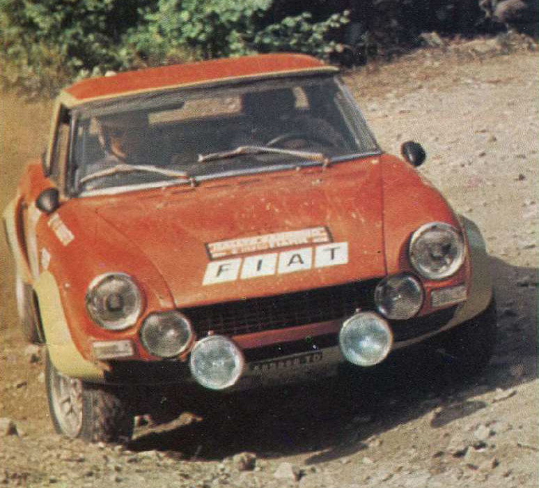 Italian rally driver Giulio Bisulli and his co-driver Francesco Rossetti on a Fiat 124 Abarth Rally (Group 4) at the 1974 Rallye Sanremo.